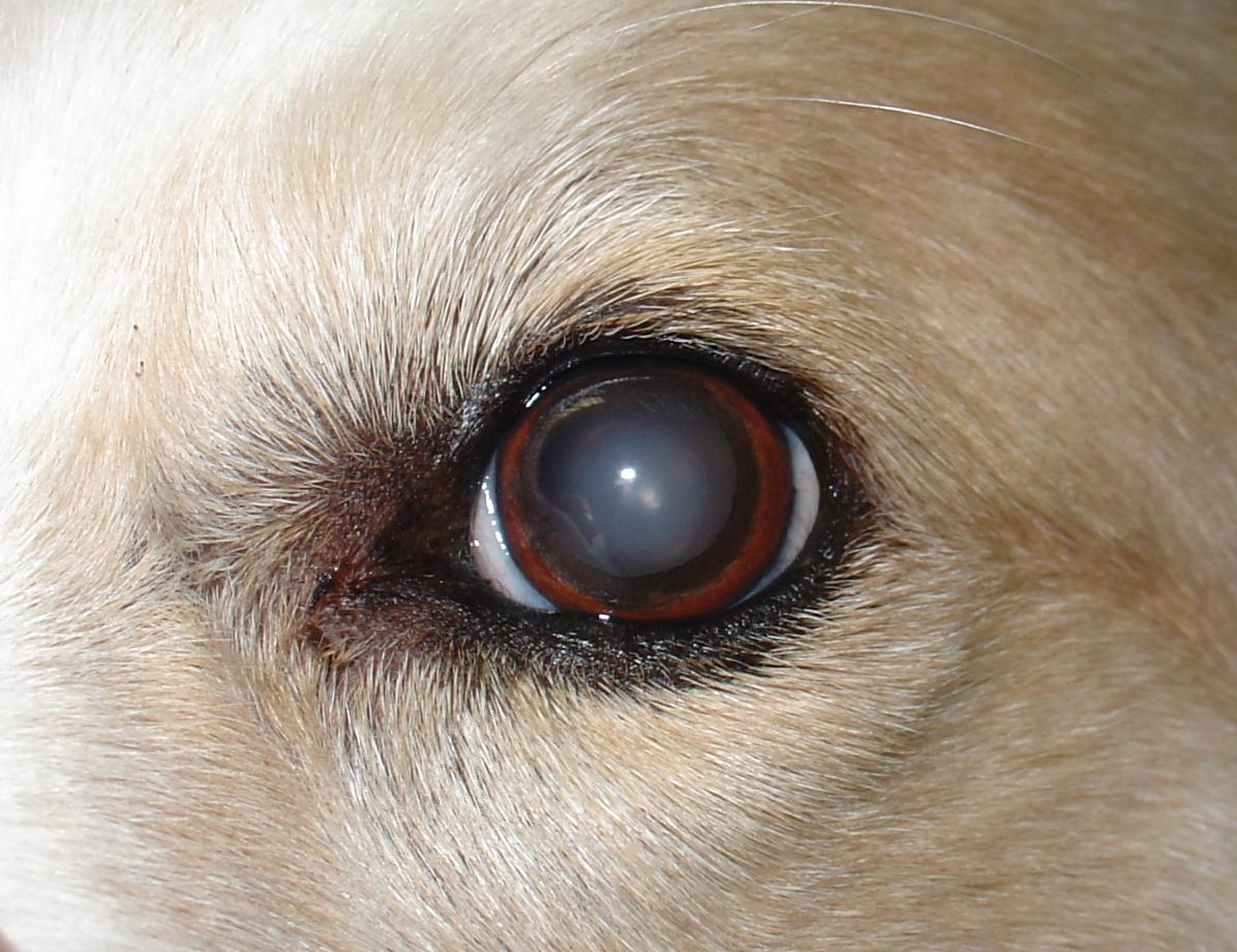 Nuclear sclerosis in a nine year old Collie mixed breed. This condition is often confused with a cataract.